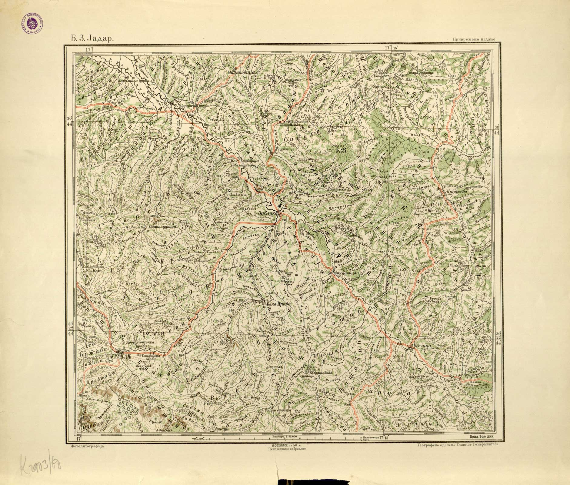 Digital copies of the Đeneralštabna map of Serbia. The map is printed in Belgrade, the 1894th , in 94 sections, with a topographic key and in scale 1:75.000. This is the first special military map of Serbia was published in the country.